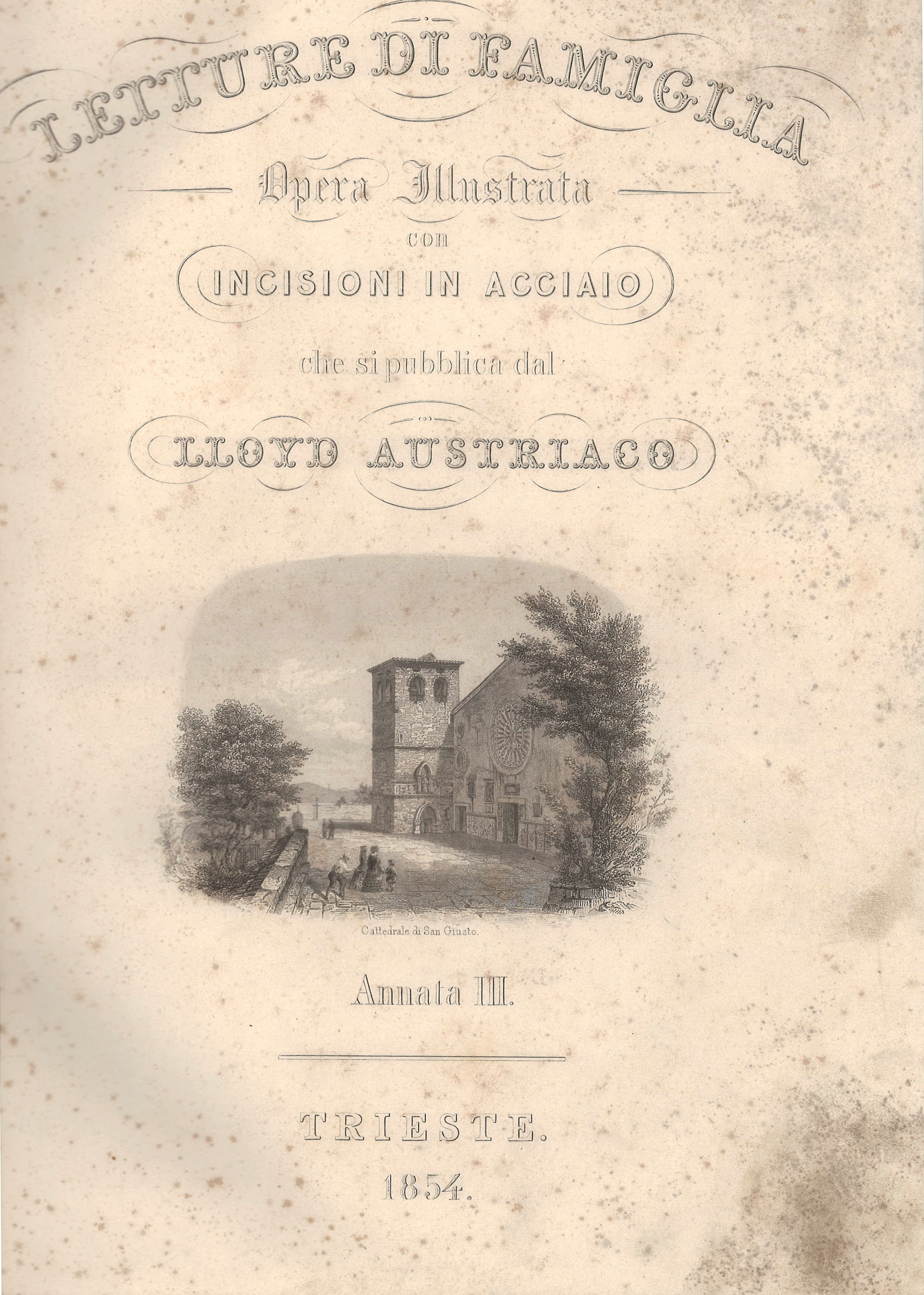 Title page of the Letture di Famiglia, Lloyd Austriaco 1854